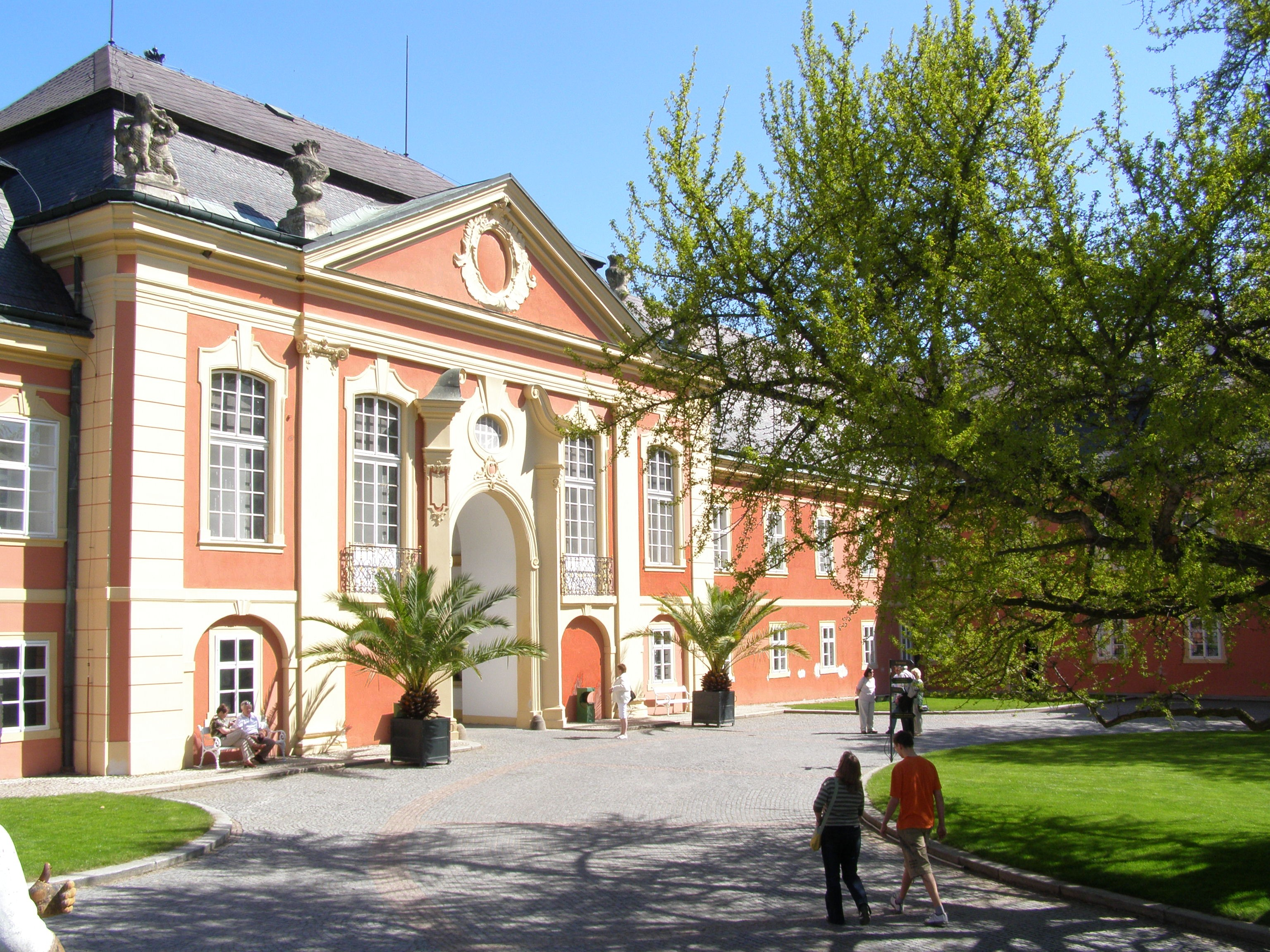 Dobris castle, Czech republic